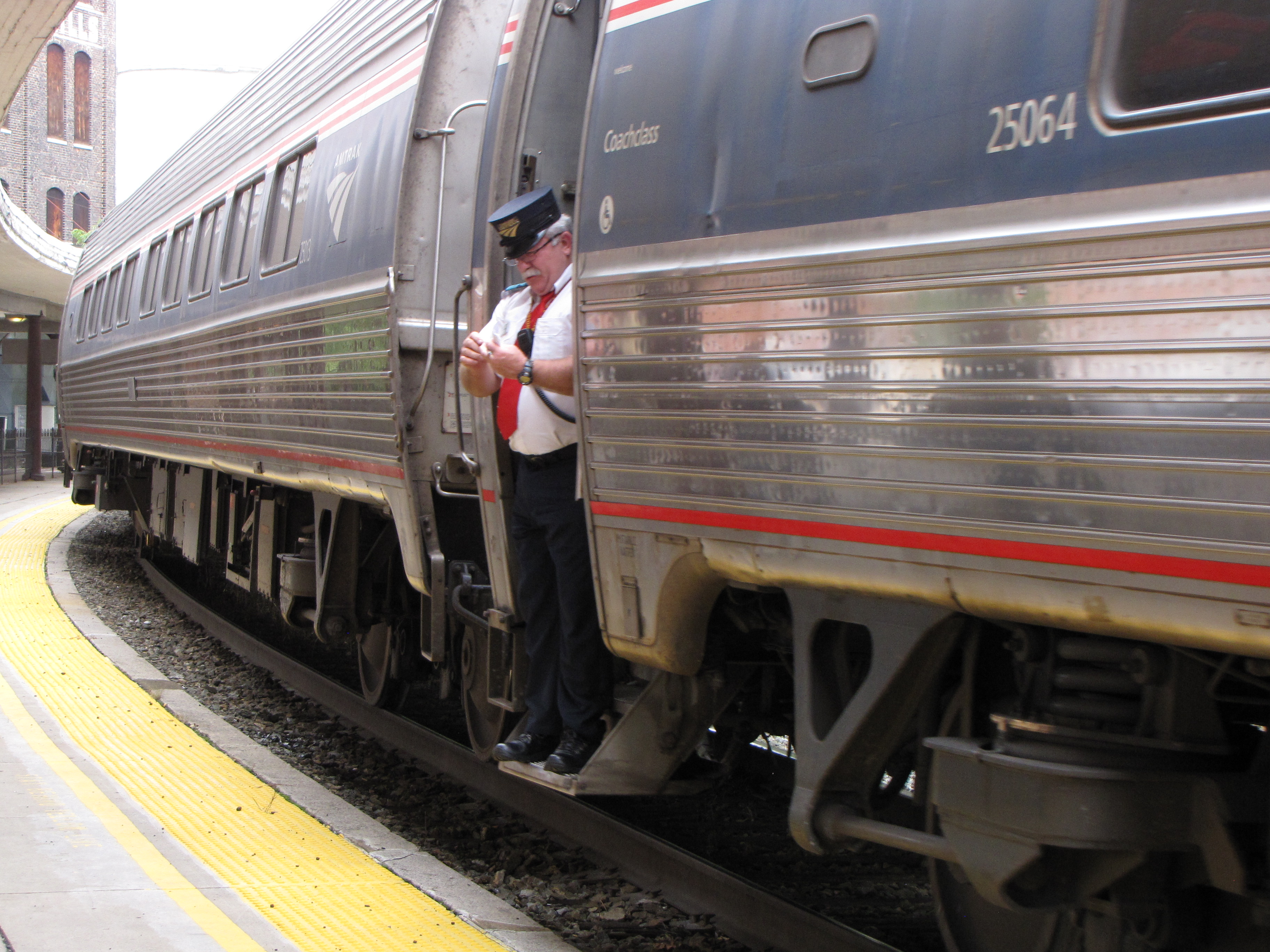 The westbound Cardinal train at Staunton, Virginia. The station stop is finished, and the conductor is standing in the door as the train departs.